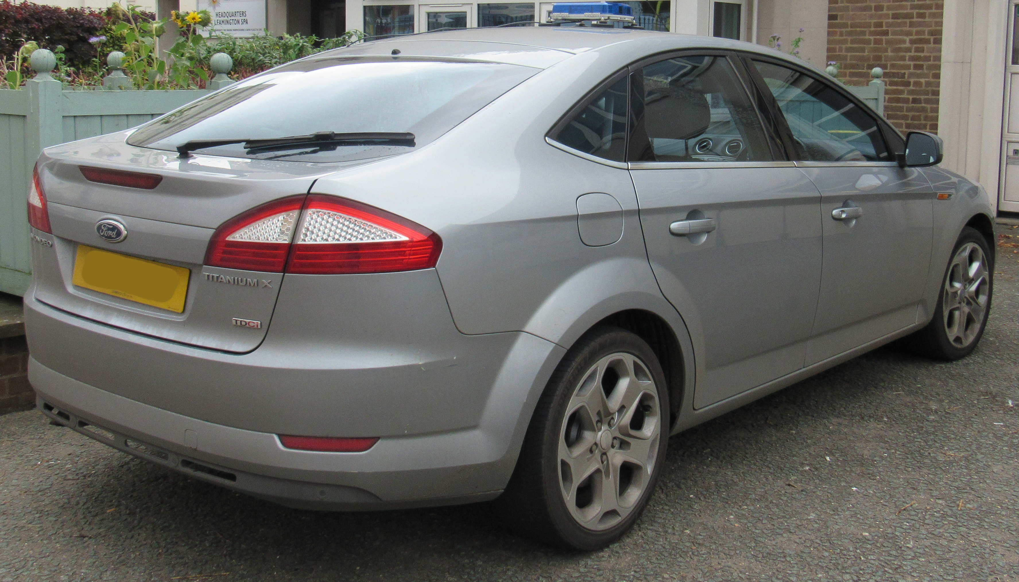 2009 Ford Mondeo Titanium X First Patrol 2.0 Rear Taken in Leamington Spa